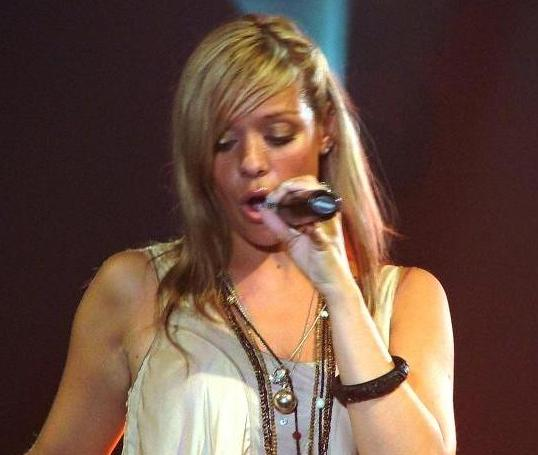 Liz McClarnon on concert in Poland